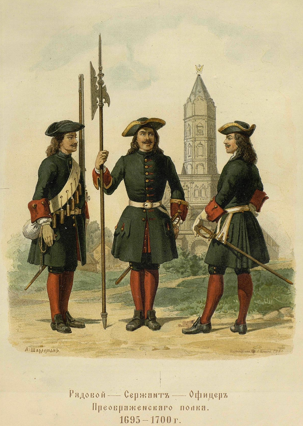 Preobrazhensky regiment. Soldier, sergeant & officer. 1695-1700